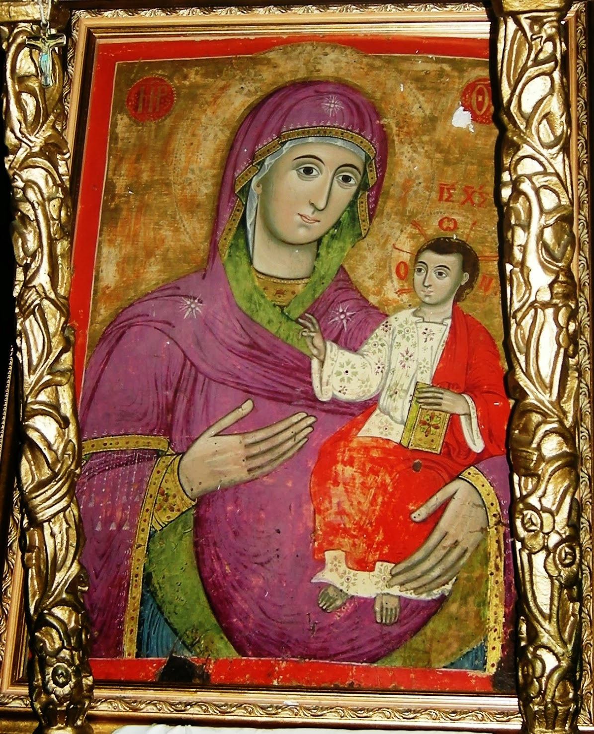 Panaia Hodegitria Icon in St. George Church in Germas (Loshnitsa)